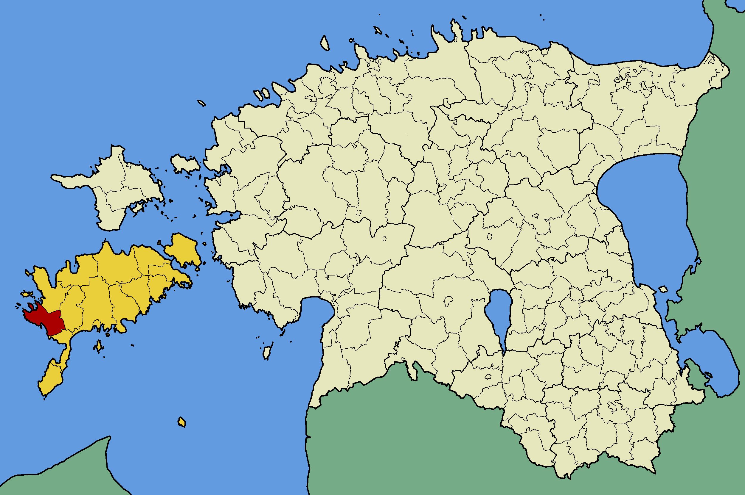 Map of Estonia with borders of municipalities (parishes). Saare county and Lümanda municipality emphasized.